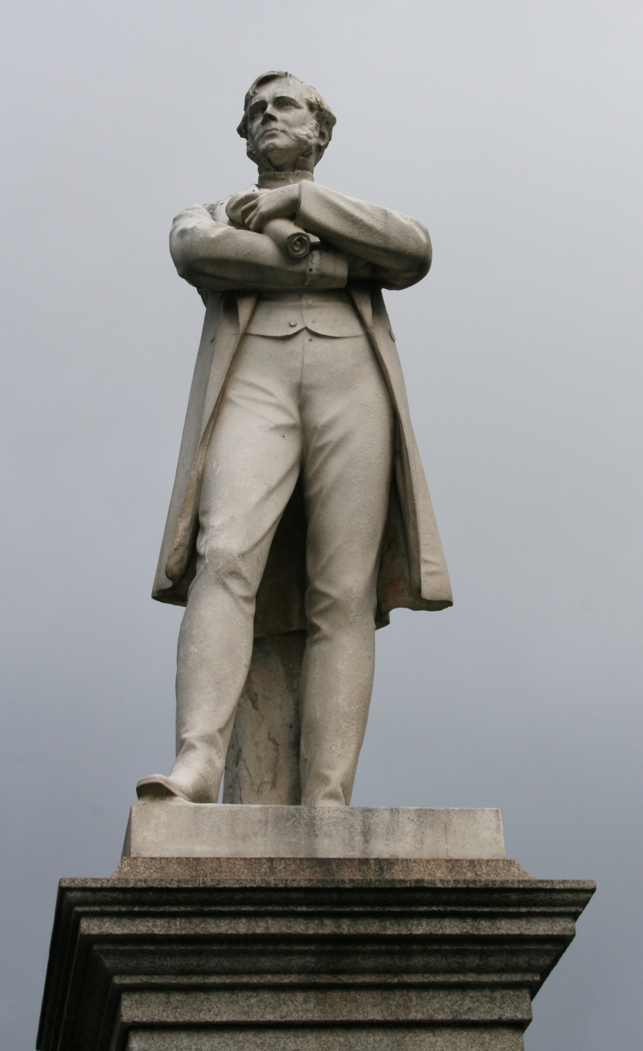 Statue of William Smith O'Brien (17 October 1803 – 18 June 1864), Irish Nationalist, Member of Parliament (MP) and leader of the Young Ireland movement) on O'Connell Street, Dublin, Ireland.